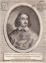 Cardinal Rinaldo d'Este (1618–1672)